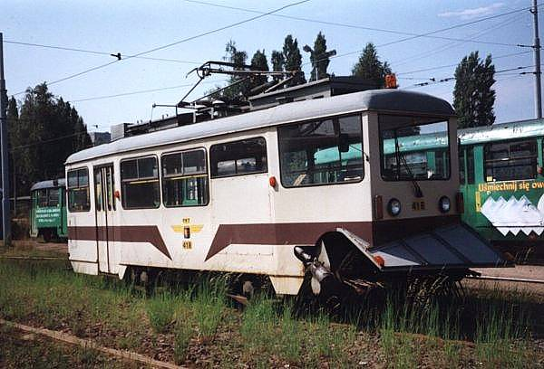 Konstal N Type (#41) based snow plough in Chorzów, Poland.